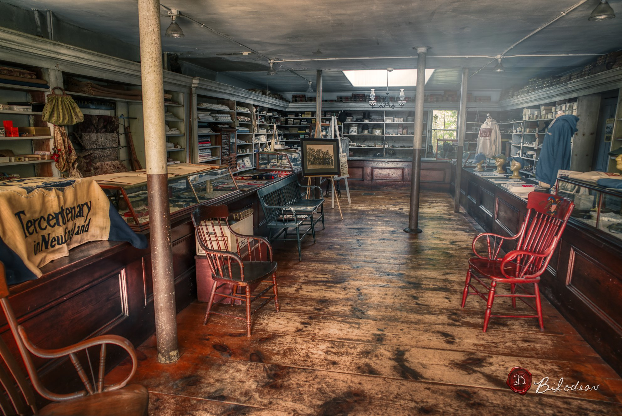 Interior view of main store area in 2020